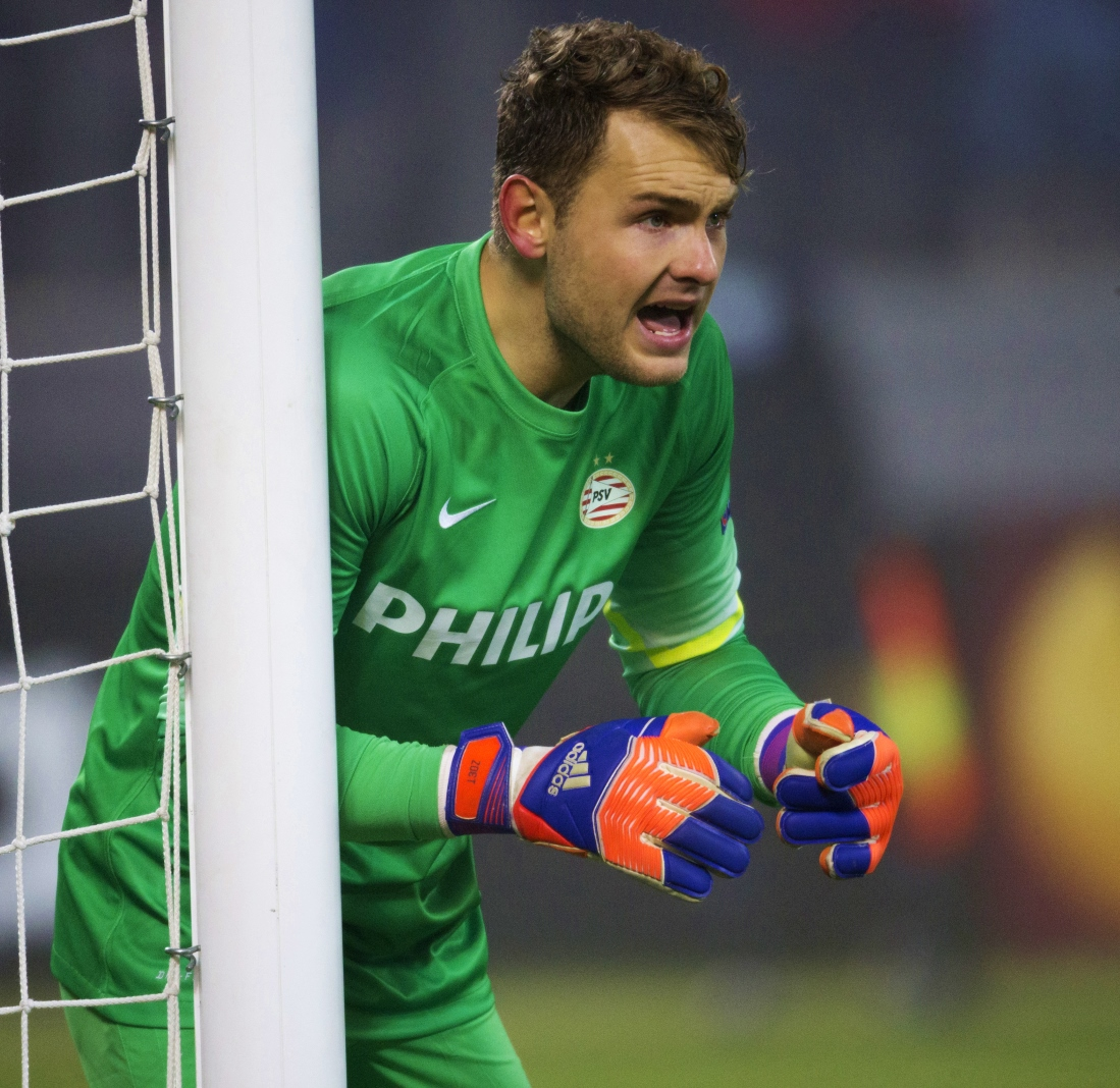 Jeroen Zoet